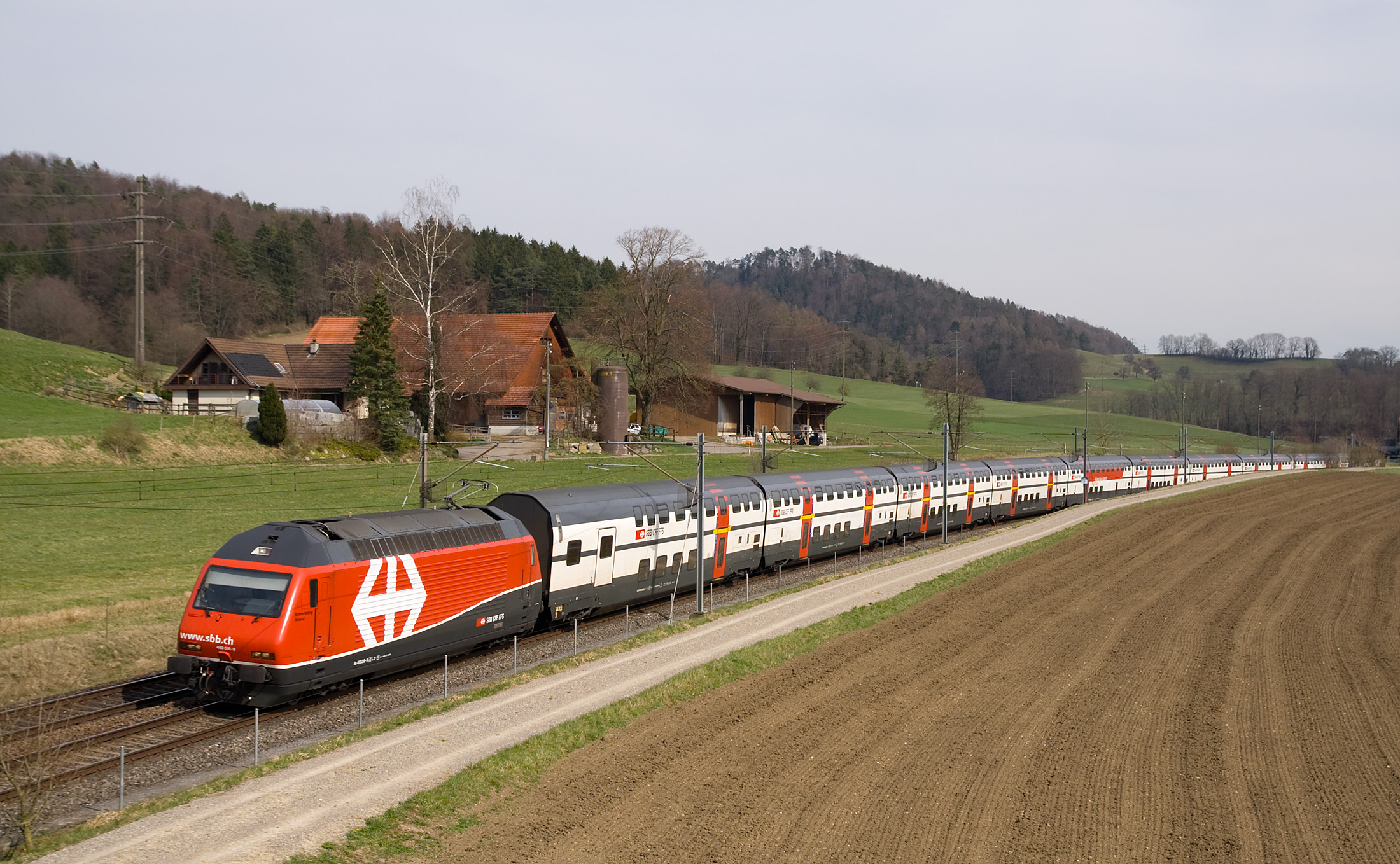 SBB Re 460 locomotive carrying the "New Look" design. The train is an IC2000 from St. Gallen to Zurich, the picture was taken near Schottikon.